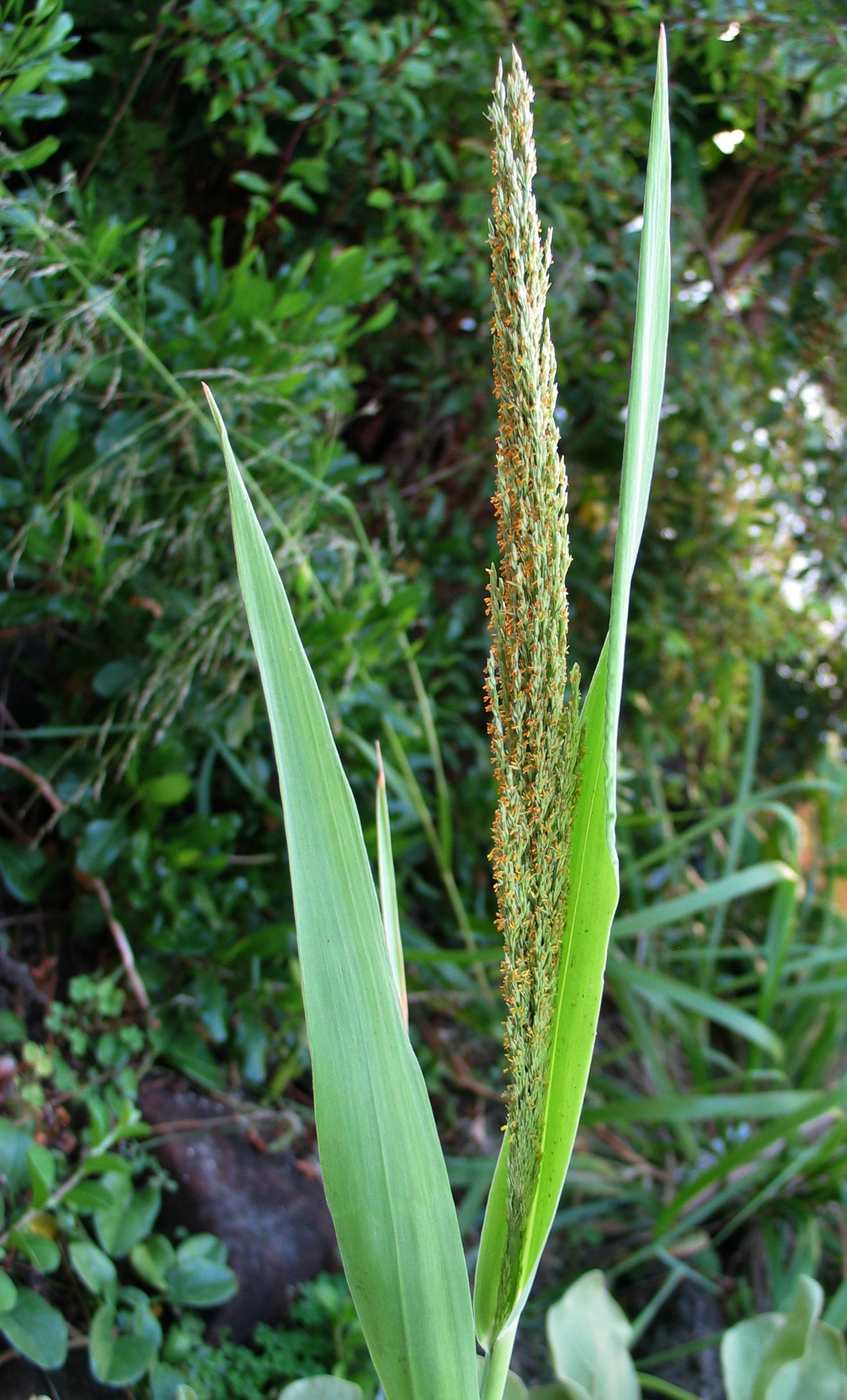 Lauʻehu or Niʻihau panicgrass Poaceae (Gramineae) Endemic to the Hawaiian Islands (Niʻihau, extinct; Kauaʻi, extant) Oʻahu (Cultivated)